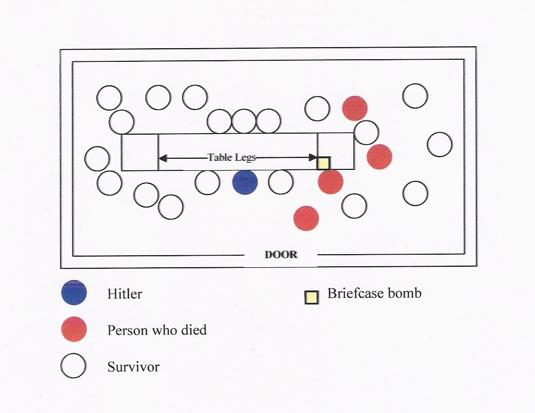 July 20 Bomb Plot Conference Room graphic